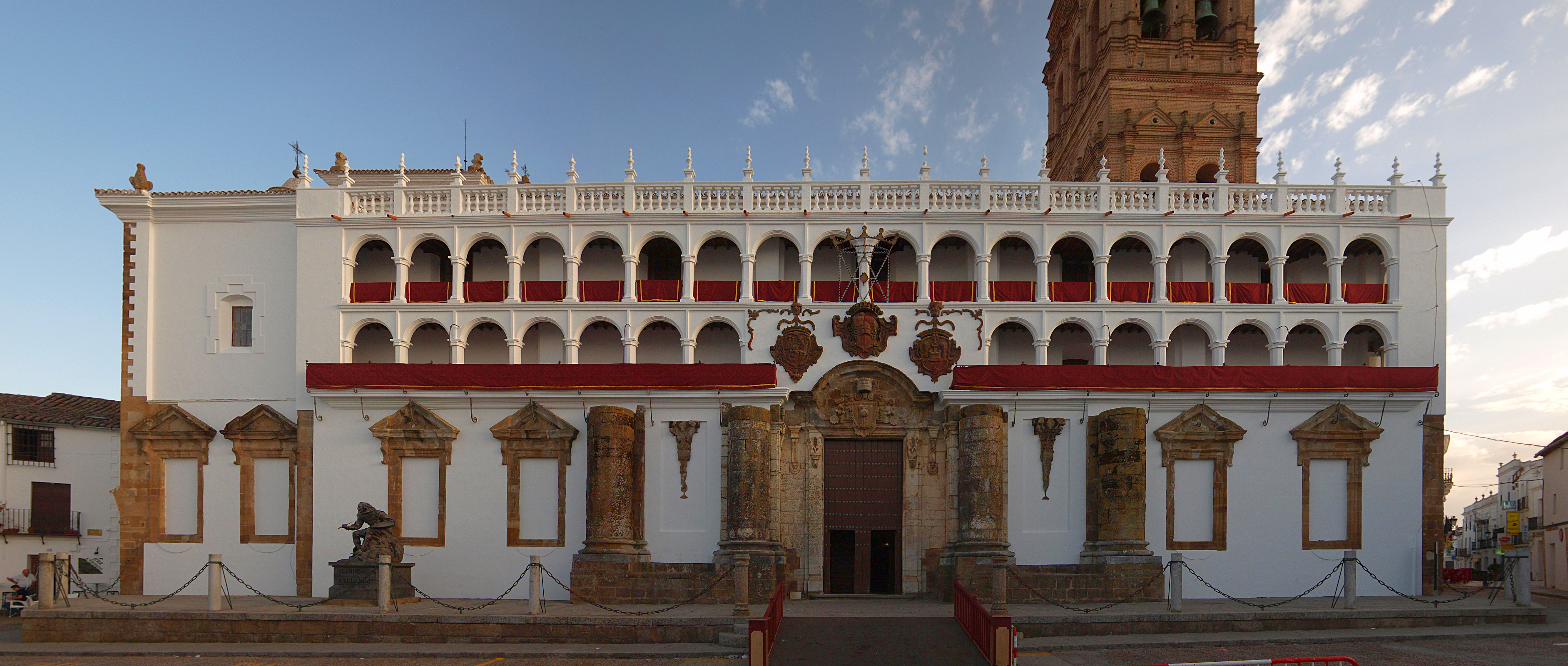 Llerena, Iglesia de Nuestra Señora de la Granada, stitch of 7 vertical images